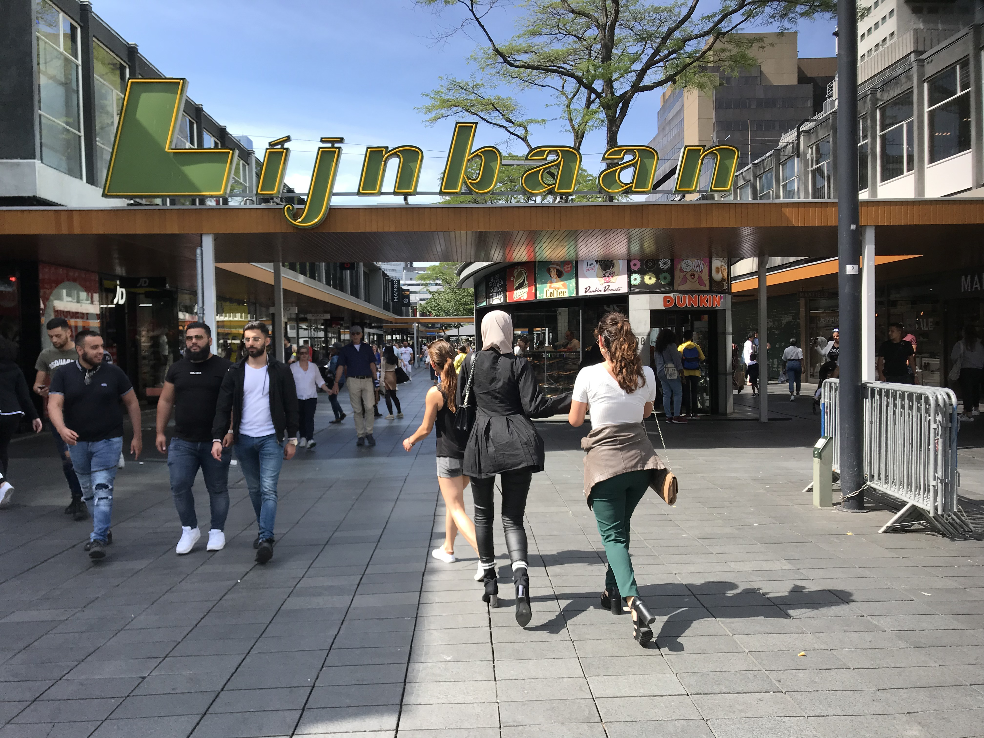 Lijnbaan